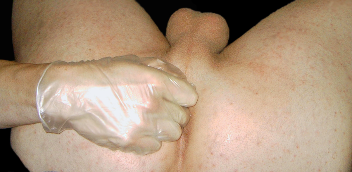 anale Prostatastimulation, 1 Finger